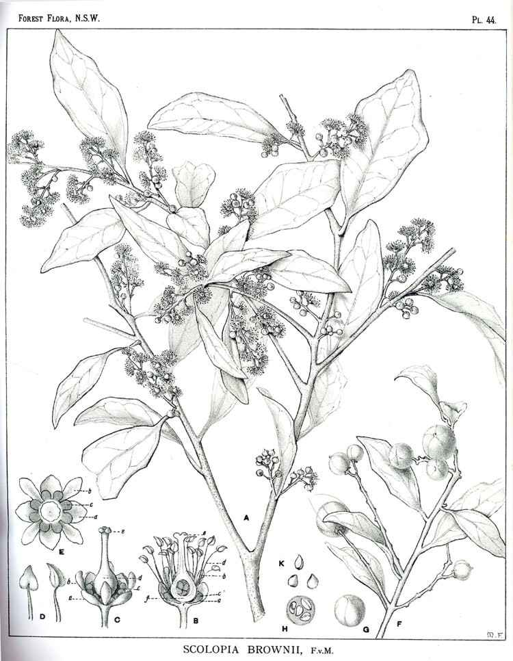 Scolopia brownii, Plate 44 from Forest Flora of New South Wales